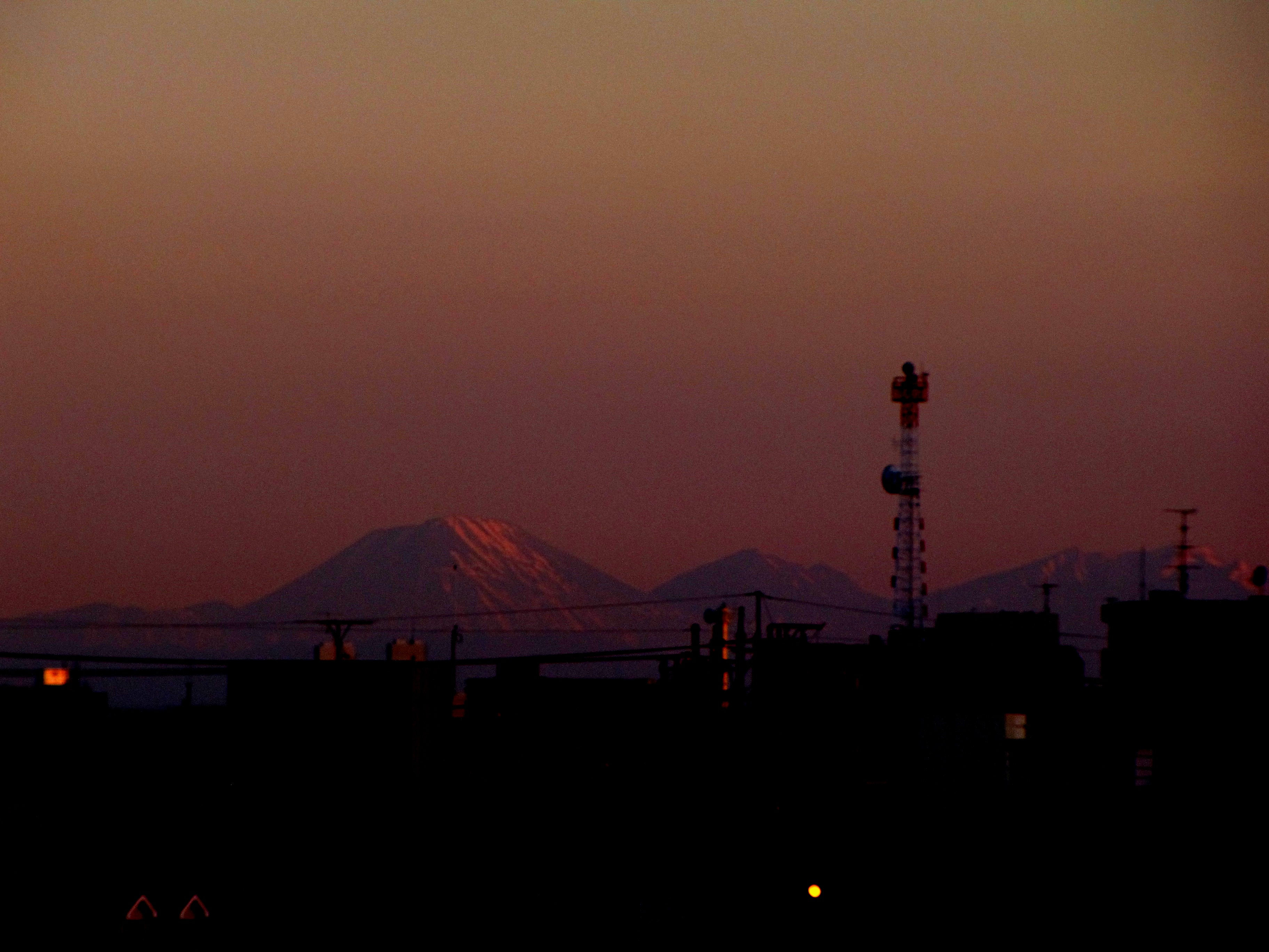 Japan: the Nantai volcano in Nikkō (Tochigi prefecture), from Saitama city.